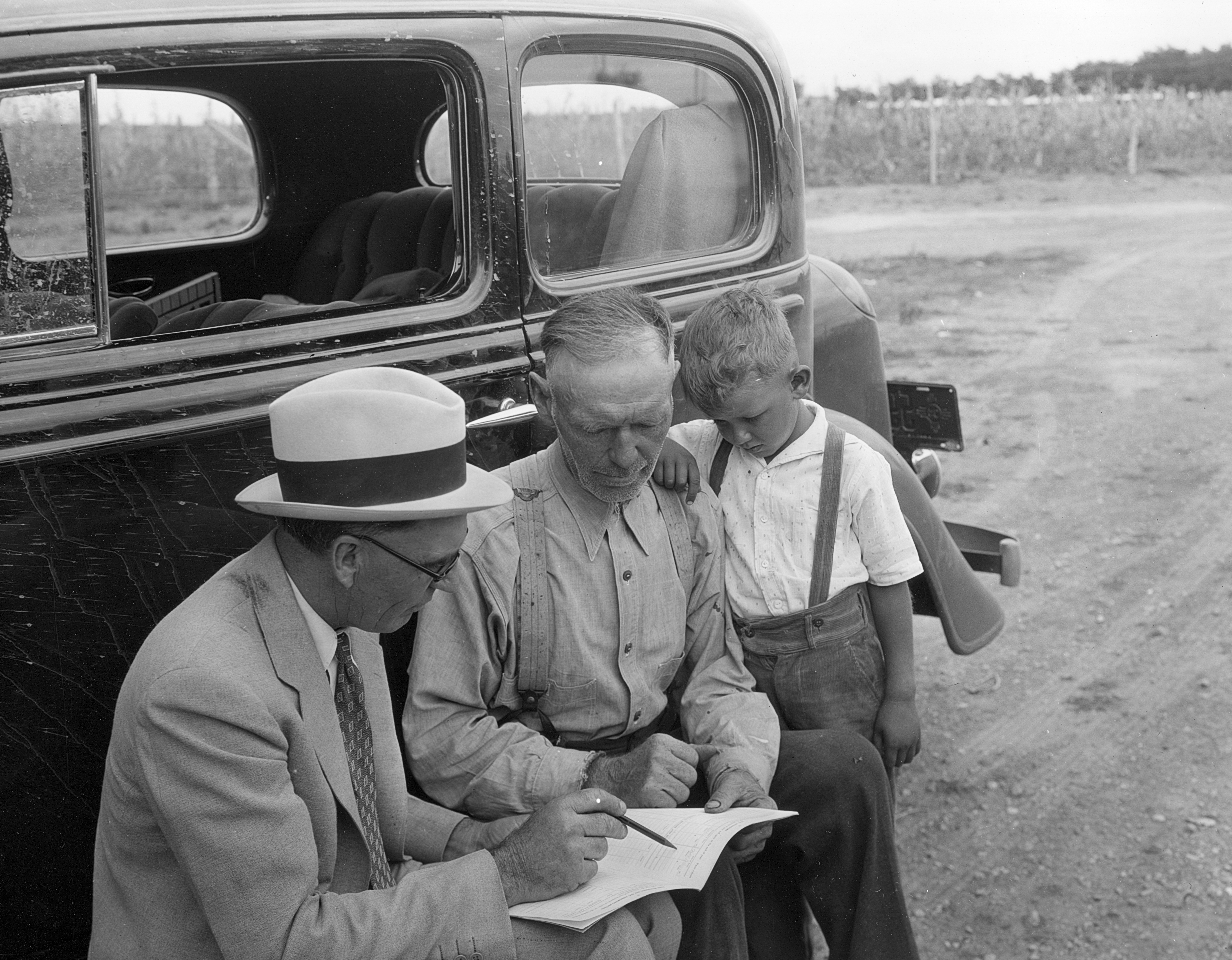 A Roosevelt County New Mexico farmer and a County Agricultural Conservation Committee representative review the provisions of the Agricultural Adjustment Act (AAA) farm program to determine how it can best be applied on that particular acreage in 1934. The farmer’s son looks on as the planting decisions are discussed. The AAA was U.S. federal law passed in 1933, which restricted agricultural production of seven “basic crops” of corn, wheat, cotton, rice, peanuts, tobacco, and milk. The law paid farmers not to plant part of their land and to kill off excess livestock in order to reduce surpluses. Photo courtesy of National Archives and Records Administration.